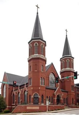 Cathedral of the Epiphany, Sioux City, Iowa